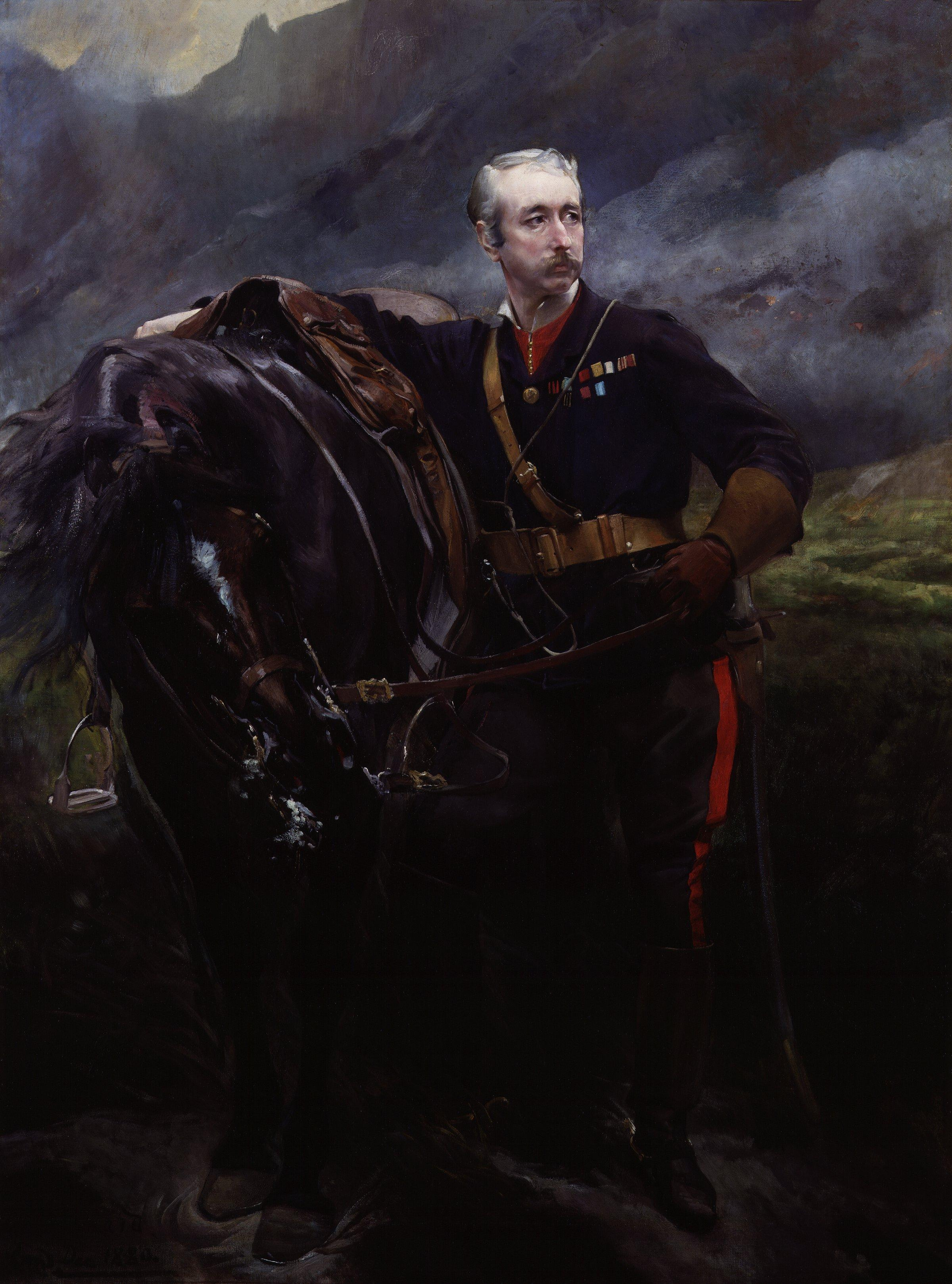 Garnet Joseph Wolseley, 1st Viscount Wolseley, by Paul Albert Besnard (died 1934), given to the National Portrait Gallery, London in 1917. All images in this batch have been confirmed as author died before 1939 according to the official death date listed by the NPG.